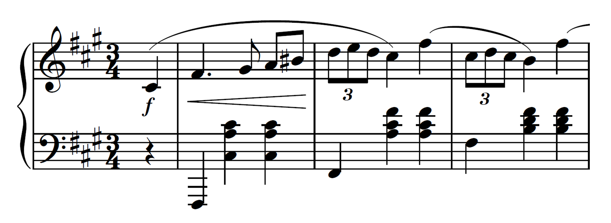 The first 4 bars of Chopin's Mazurka in F-sharp minor, Op. 59, No. 3